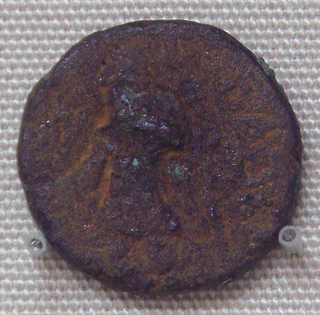 A coin of Kanishka I found in Khotan (by Stein).